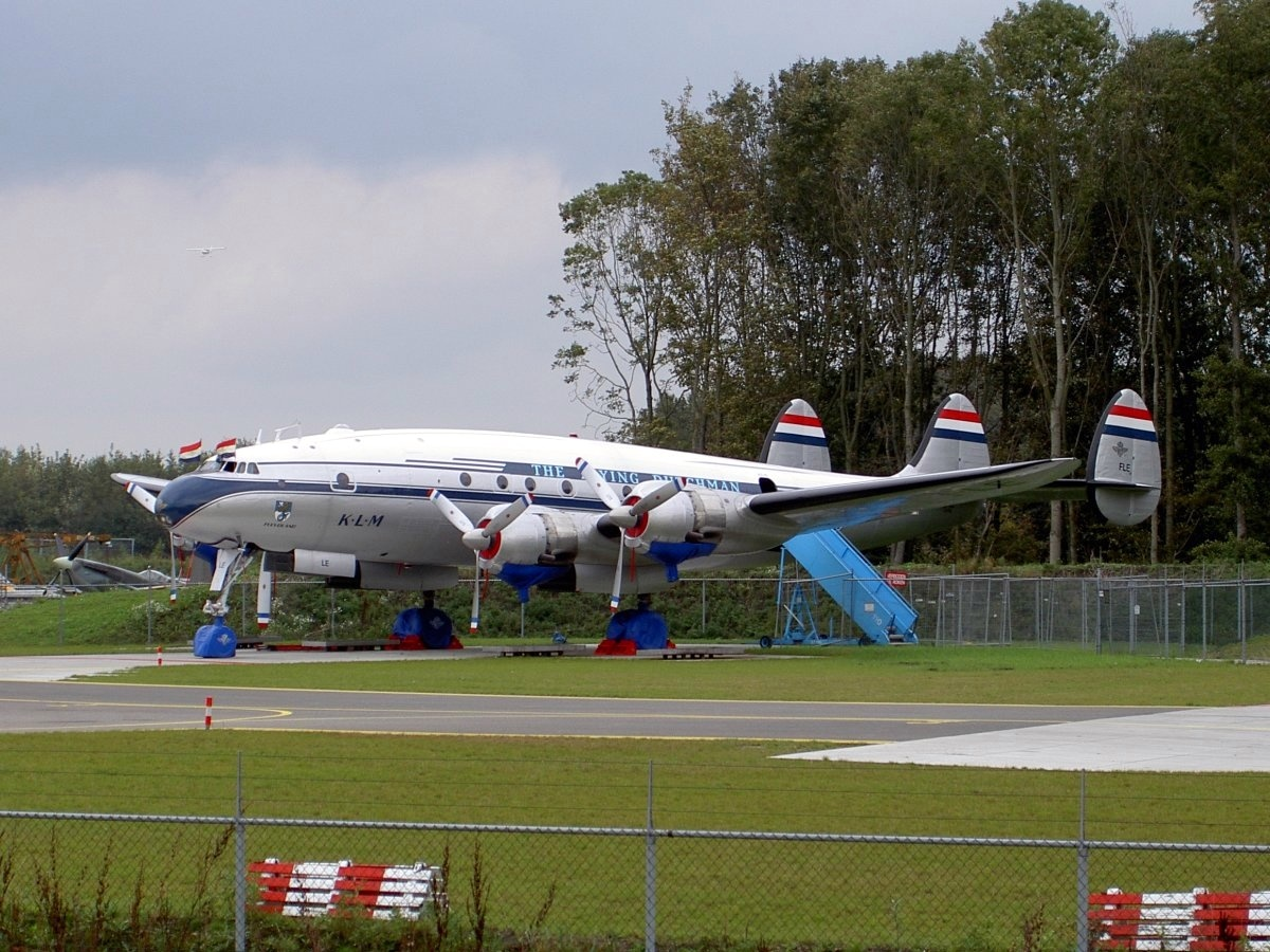 Photographed at Lelystad Airport.